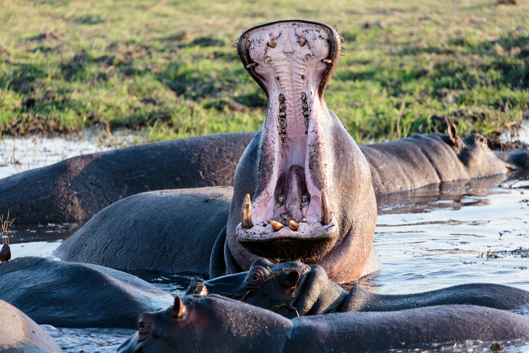 500px provided description: During a river cruise in the afternoon we were lucky to see a large variety of animals, including a group of hippos. Only after our boat has already turned away, one hippo showed off impressively. [#Africa ,#Hippopotamus ,#Safari ,#Hippo ,#Chobe River]